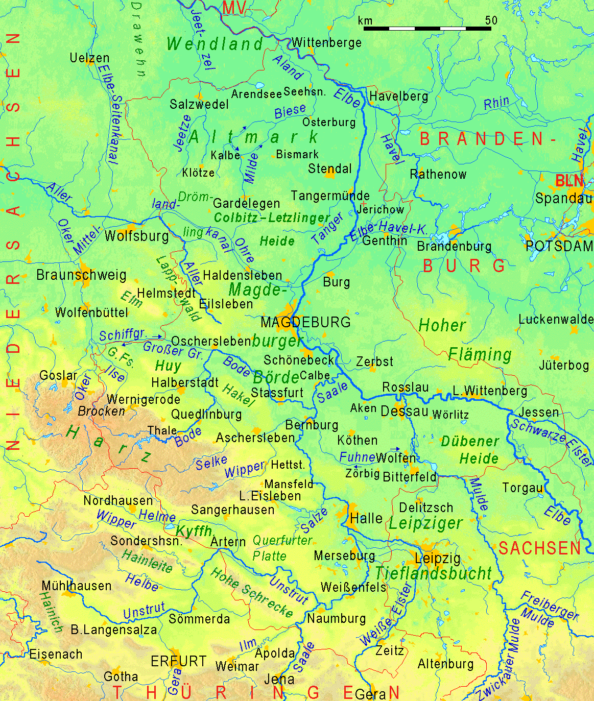 Physical map of Sachsen-Anhalt